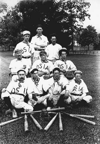 Oregon State Hospital men's baseball team, 1901 (Photo ID: OSH0017)